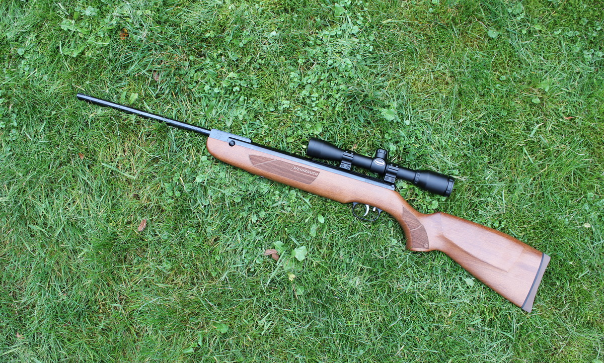 Spring piston break barrel air rifle.